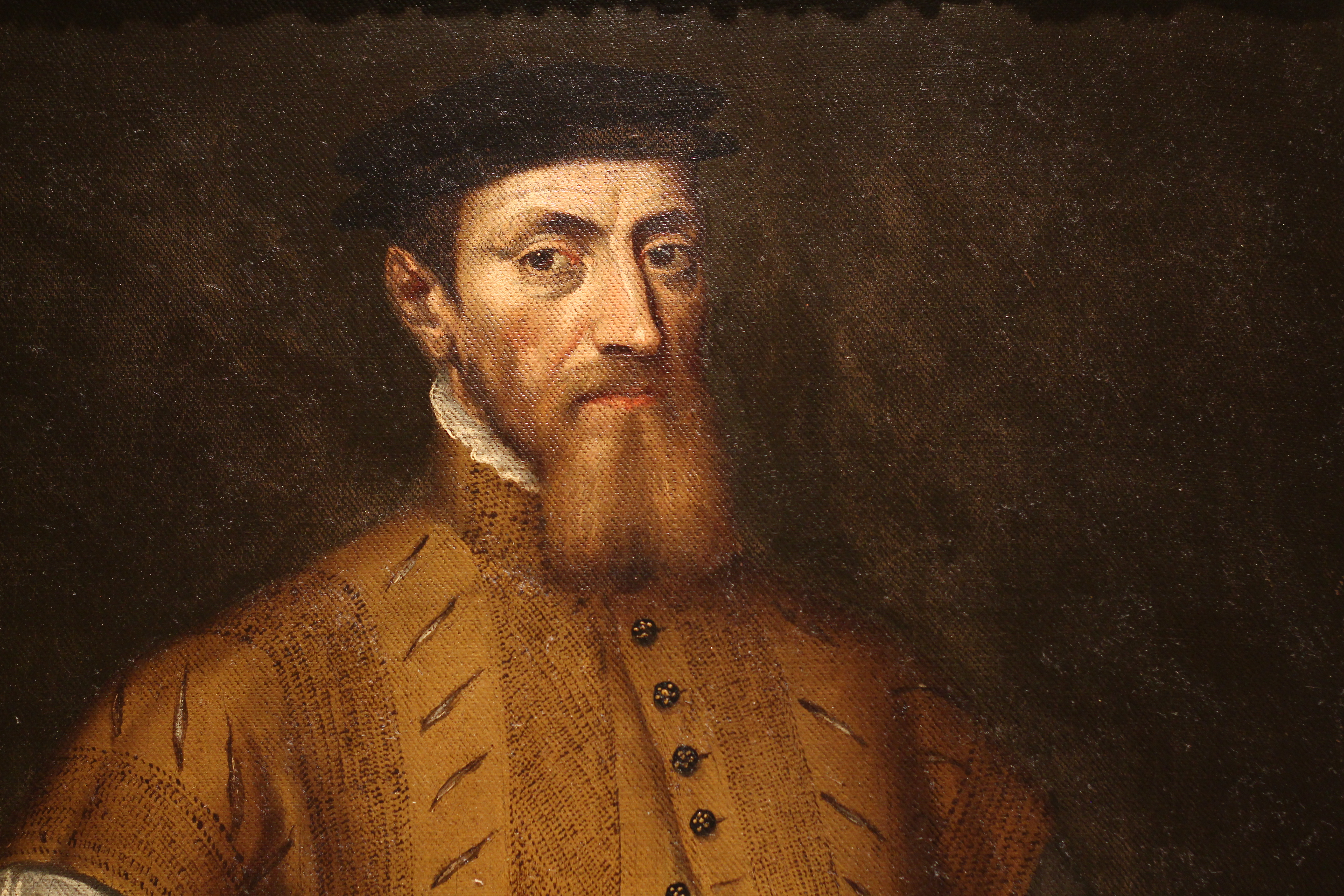 Sir Thomas Gresham portrait in Mercers' Hall, London.